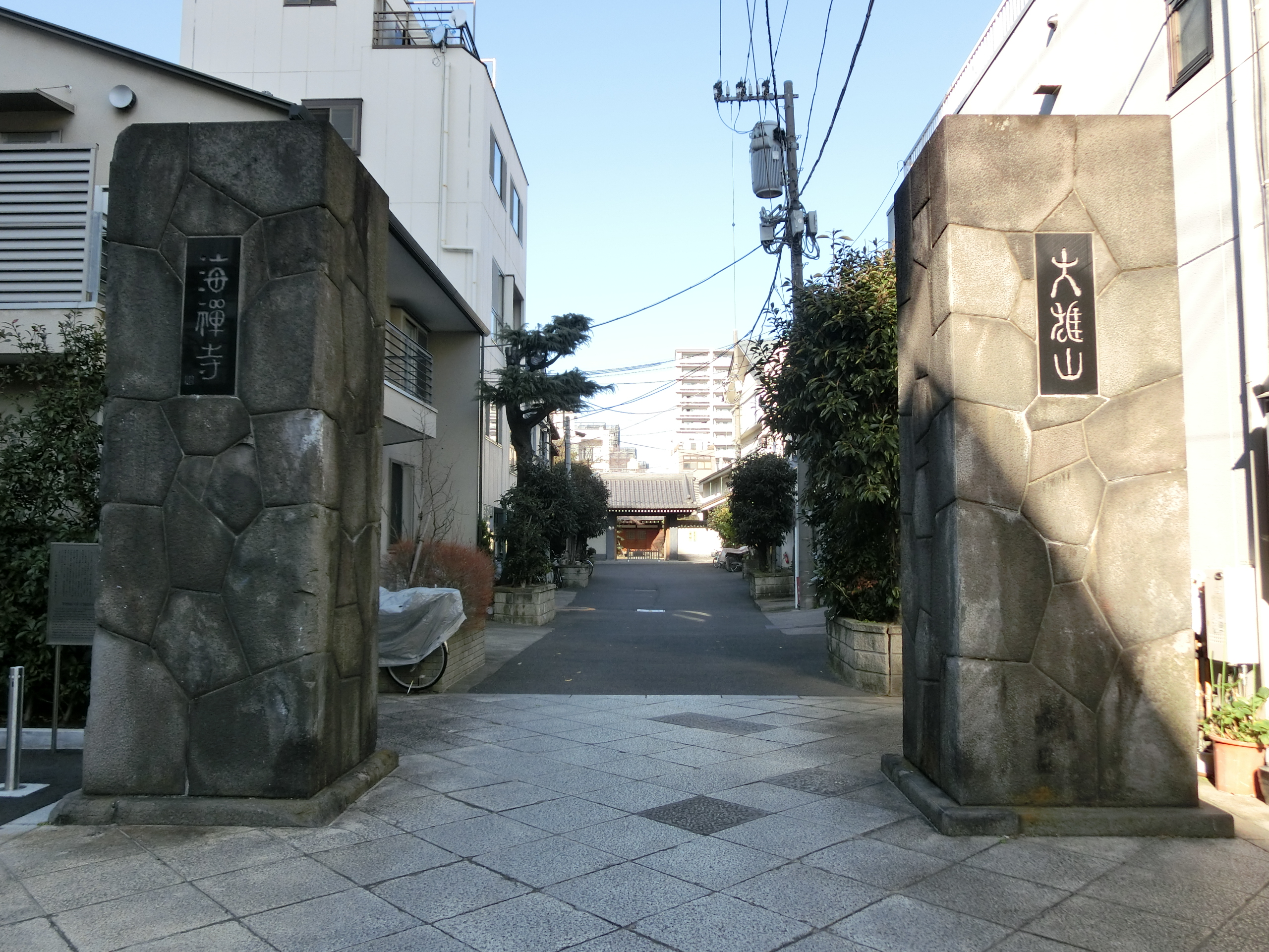 Kaizen-ji (Taito)